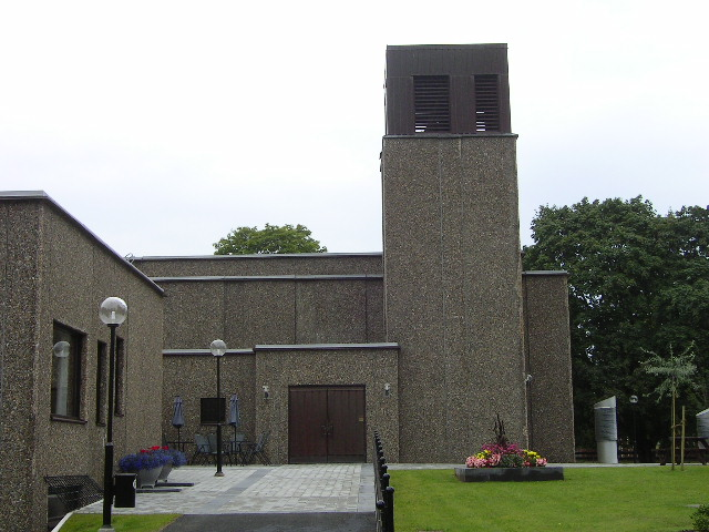 Vaggeryd Church